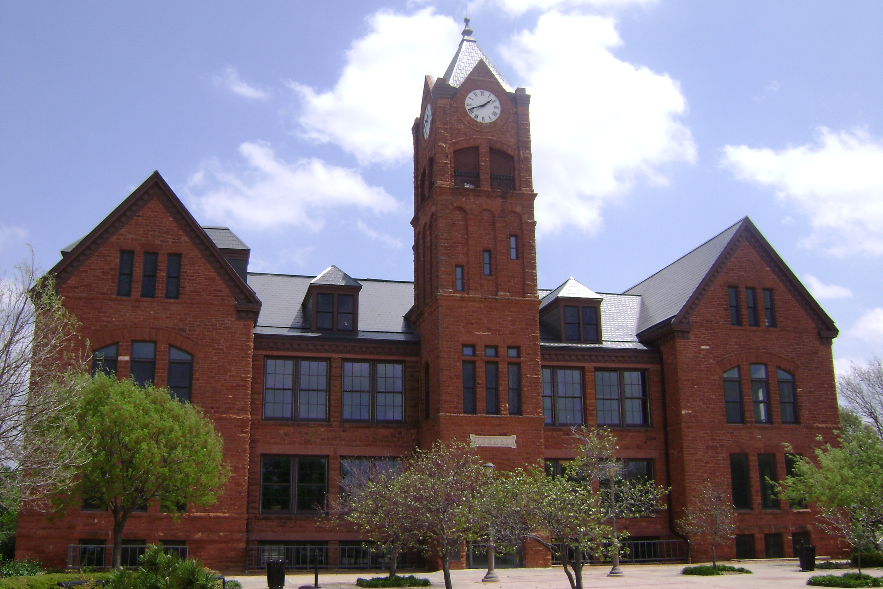 Old North in 2008.